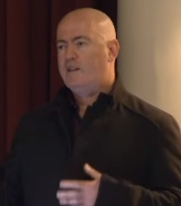 Brendan McNamara, speaking at the Bradford Animation Film Festival 2011.